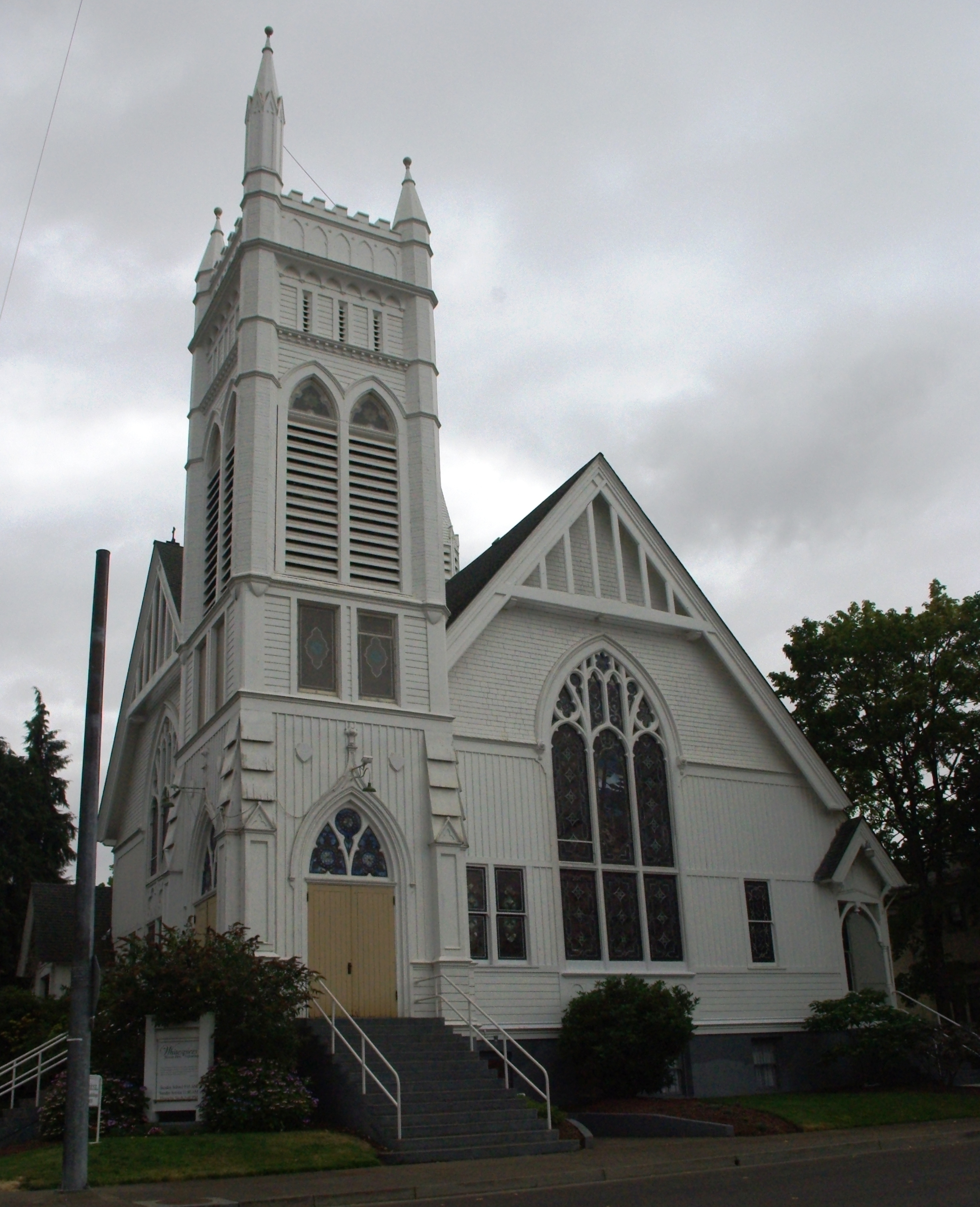 The Whitespires Church in Albany, Oregon, United States, is listed on the US National Register of Historic Places under its historic name of United Presbyterian Church and Rectory. It is also identified as a contributing resource in the NRHP-listed Albany Monteith Historic District.NRHP reference number 79002111